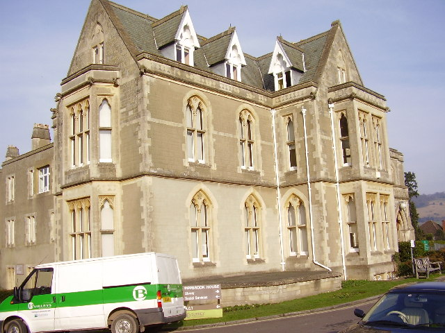 Public Library, Pippbrook House, Reigate Road, Dorking, RH4 1SH. Looking North from Mole Valley District Council Offices' grounds